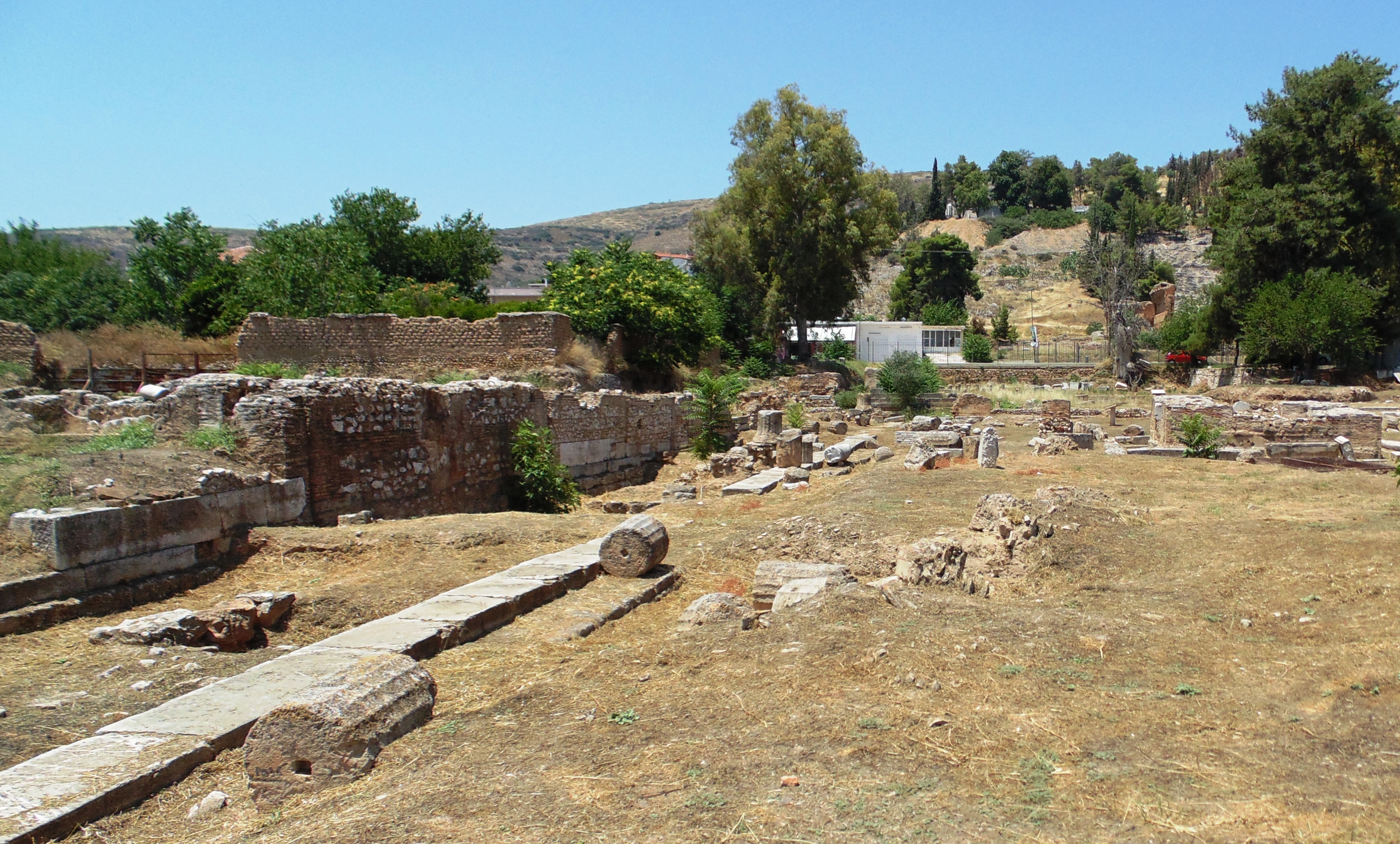 Ancient Agora of Argos